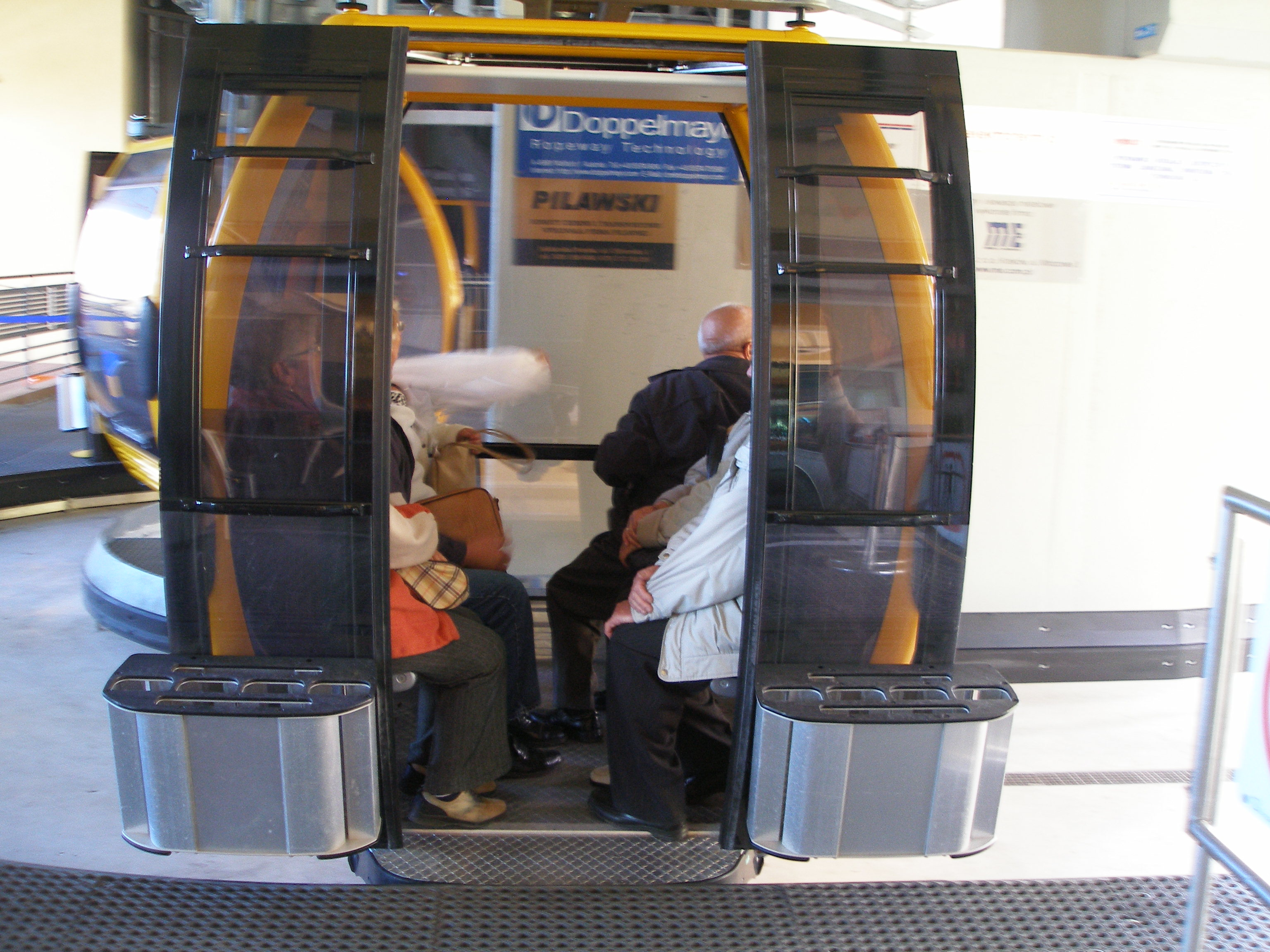 Cableway to Stóg Izerski, Poland.